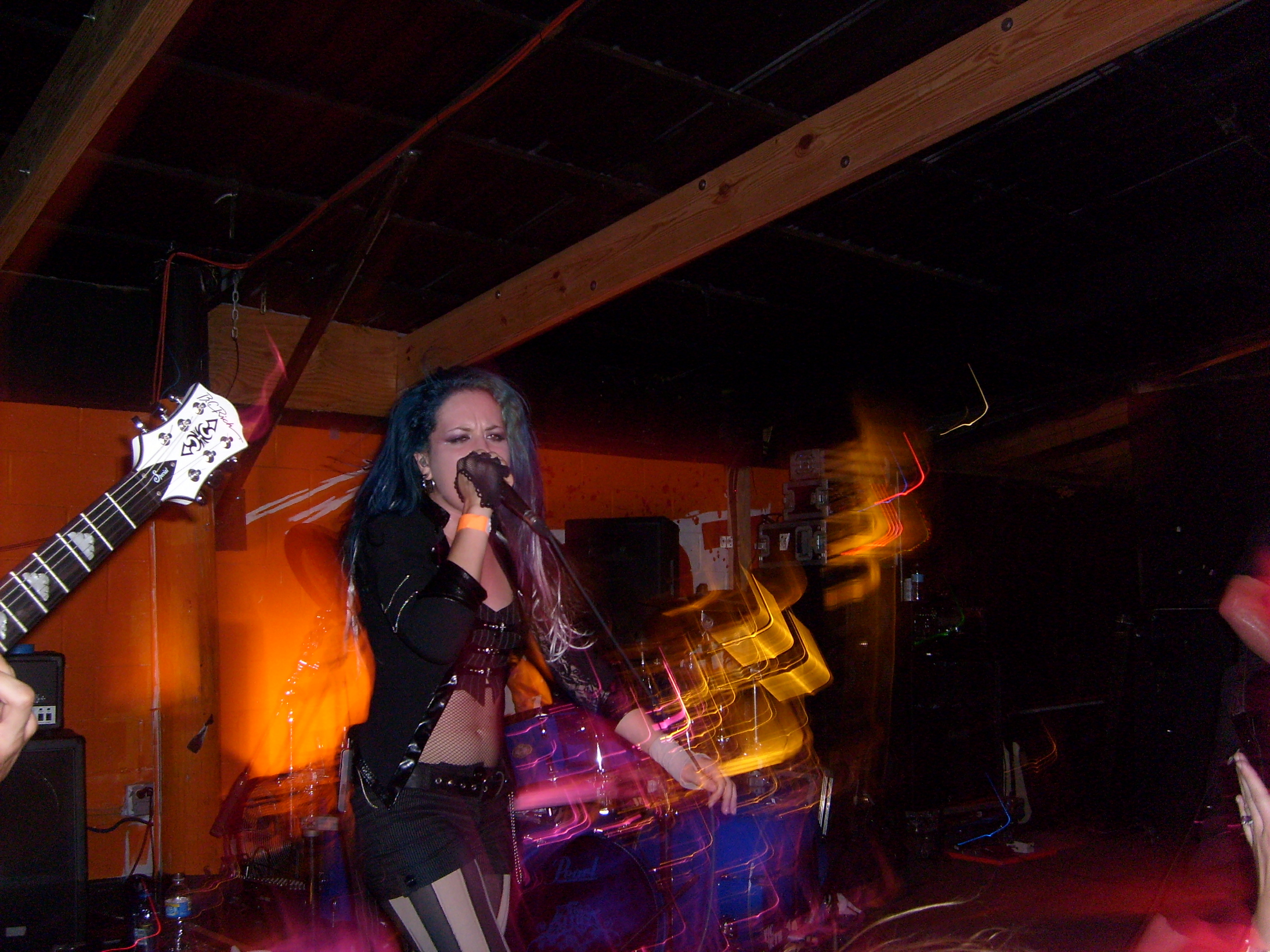 The Agonist live.